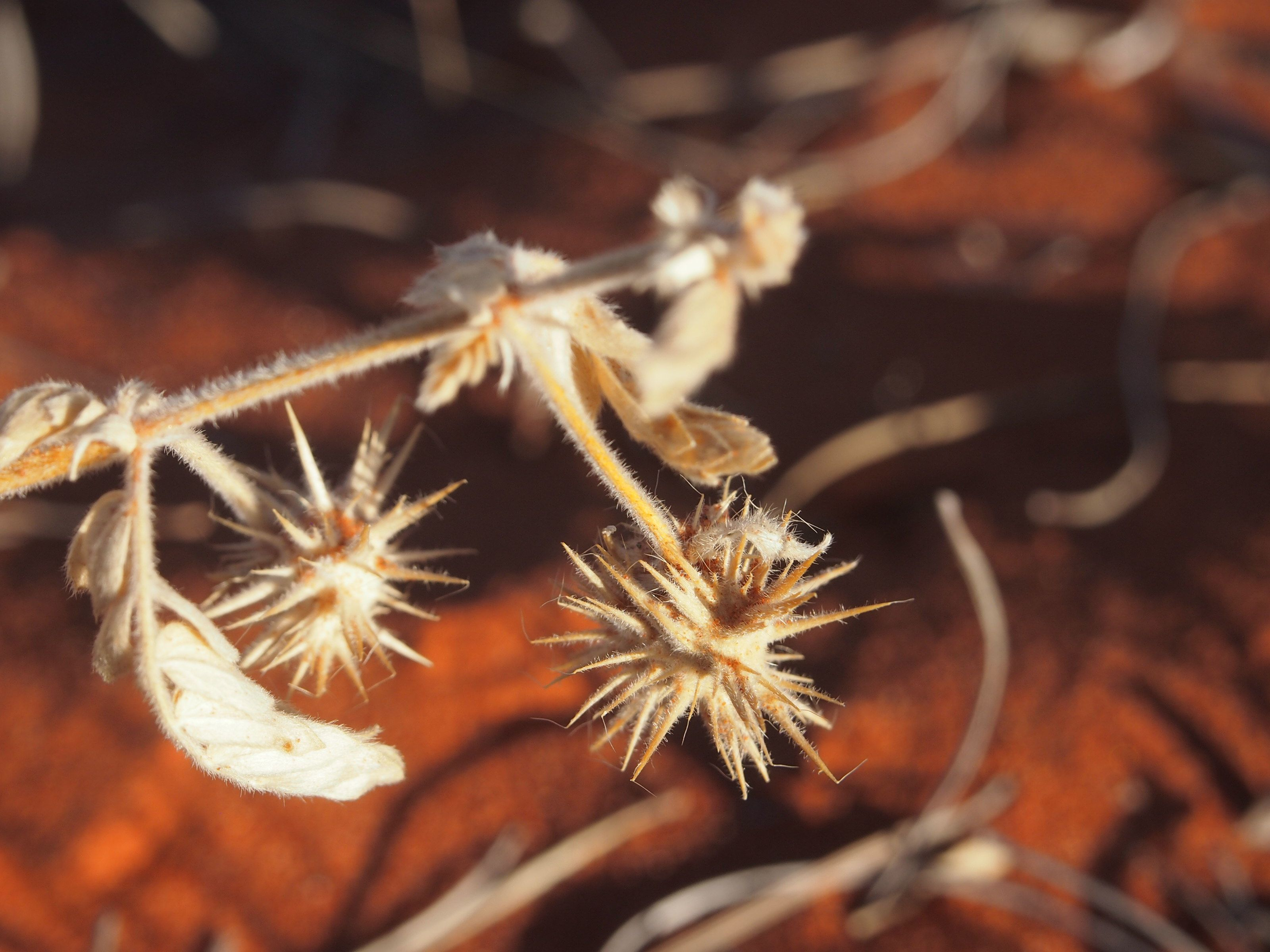 Tribulus hystrix fruit